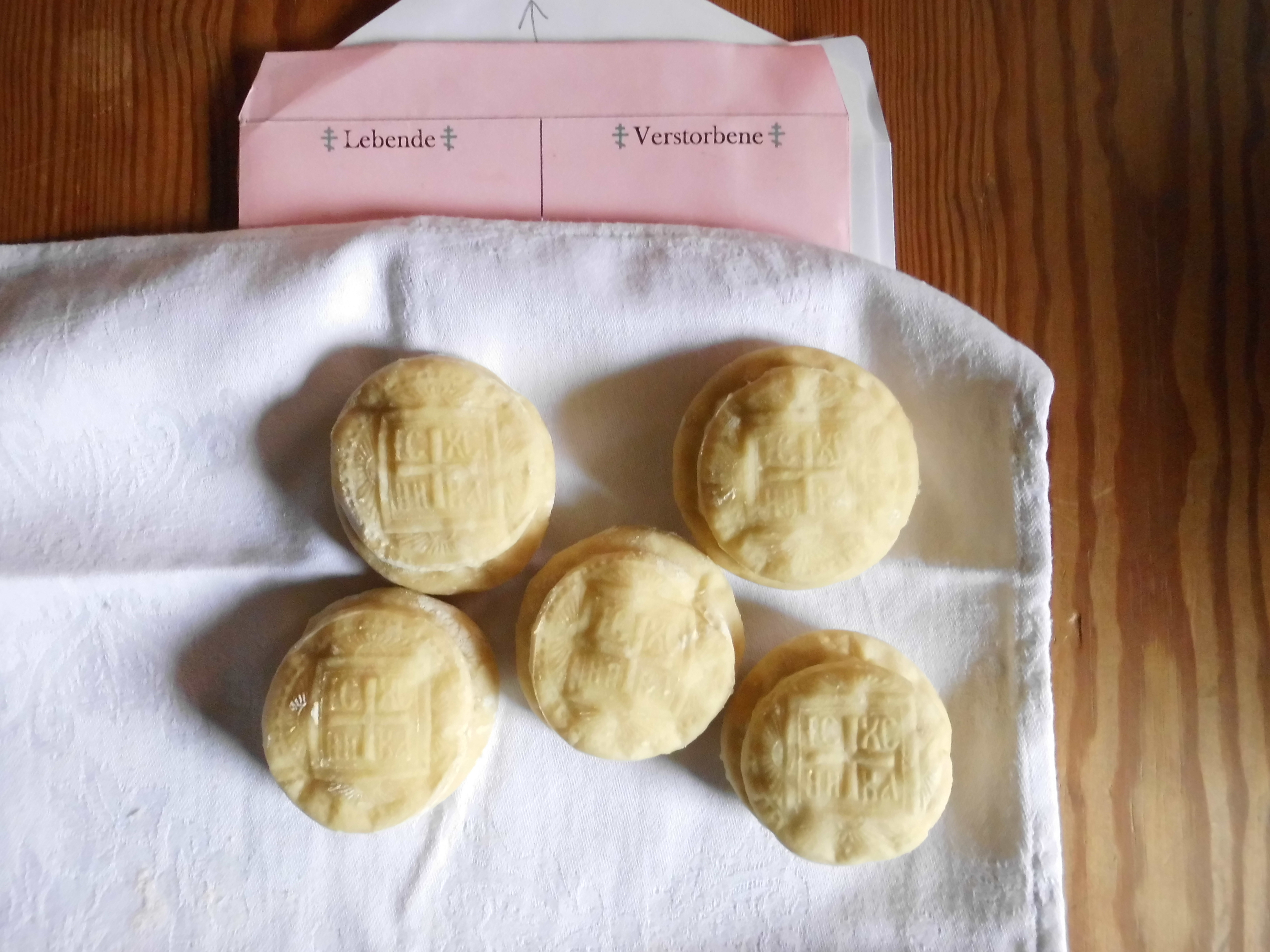 Prosphora